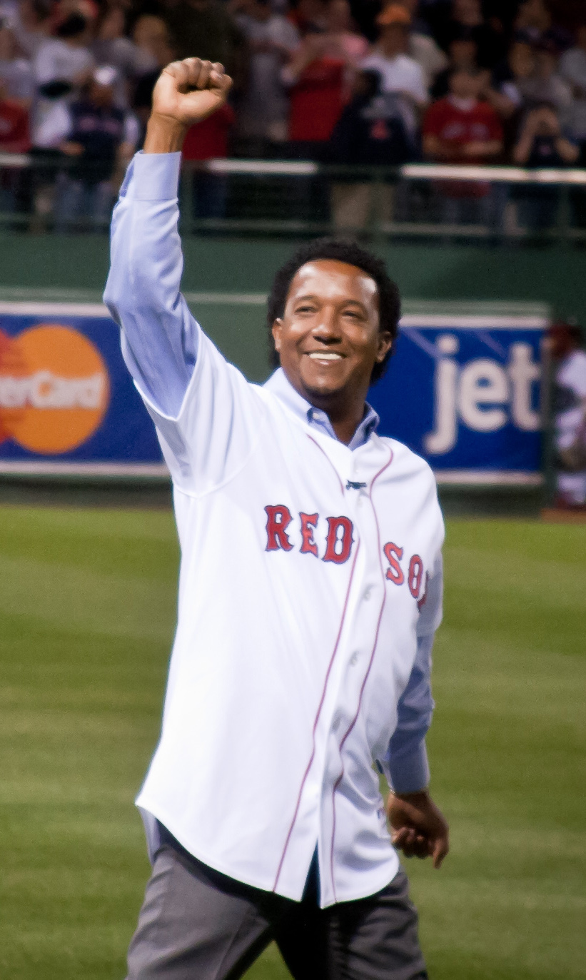 Long-time Boston Red Sox pitcher Pedro Martínez returns to Fenway Park in 2010